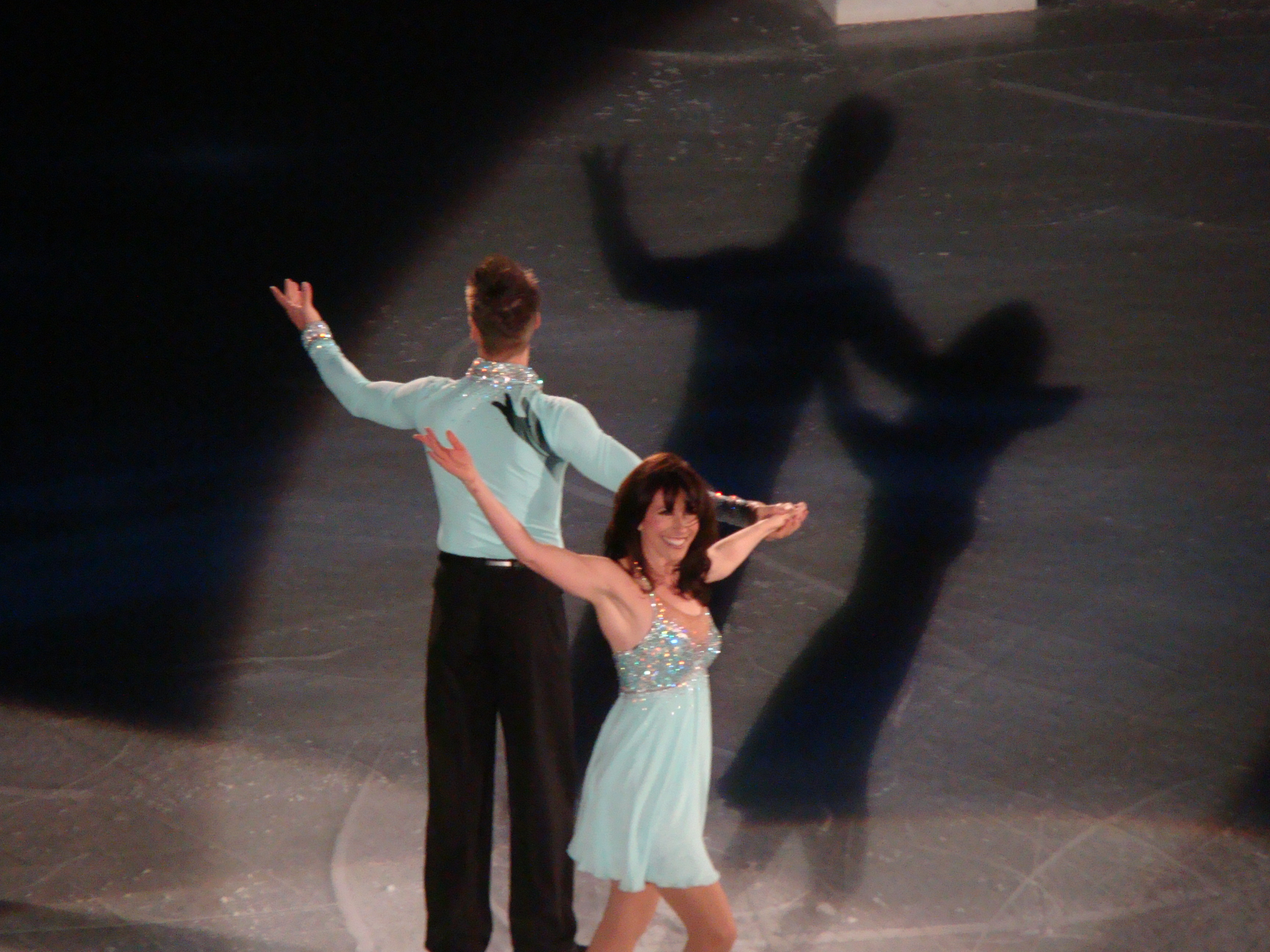 Matt Evers & Gaynor Faye